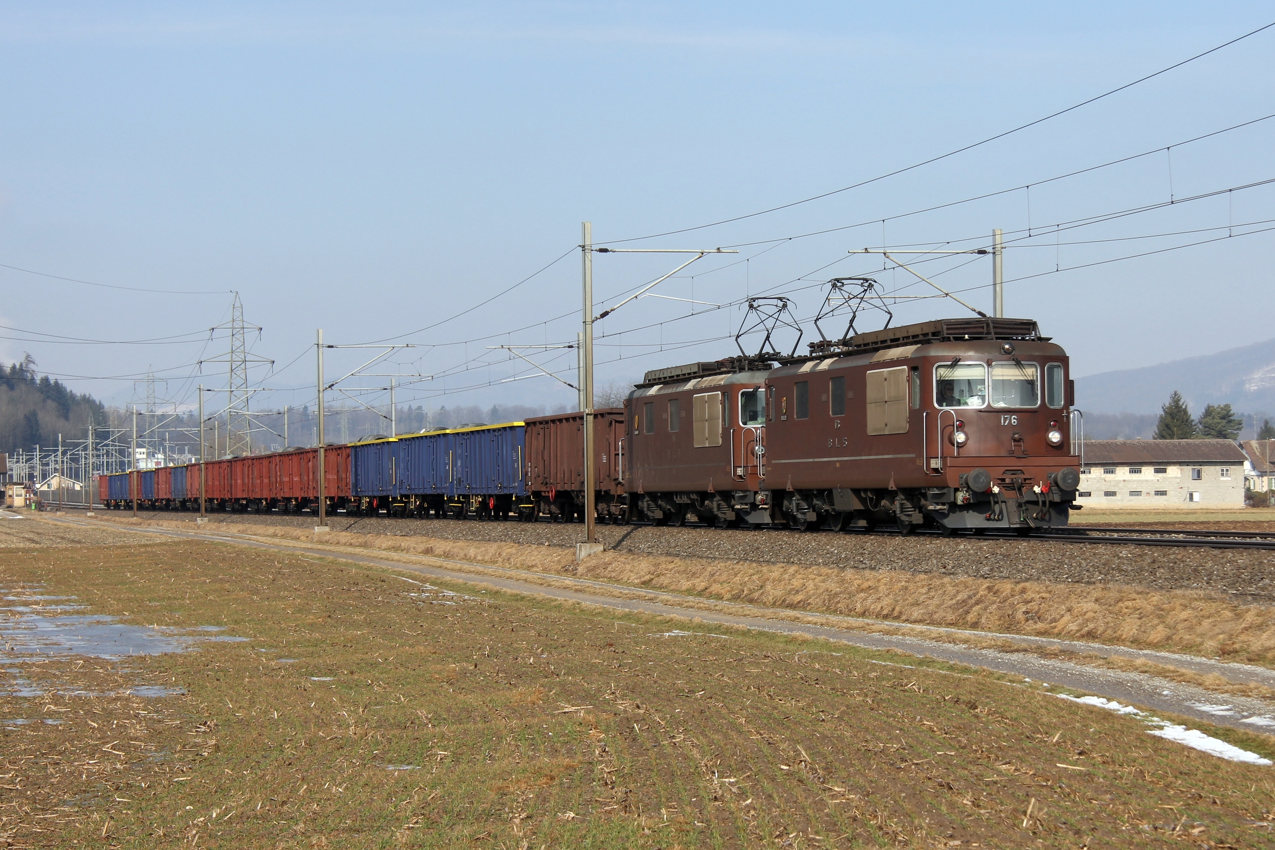 BLS Re 4/4 176 Hohtenn and Re 4/4 184 Krattigen with train 49005 Emmenbrücke - Lecco Maggianico, loaded with steel products.